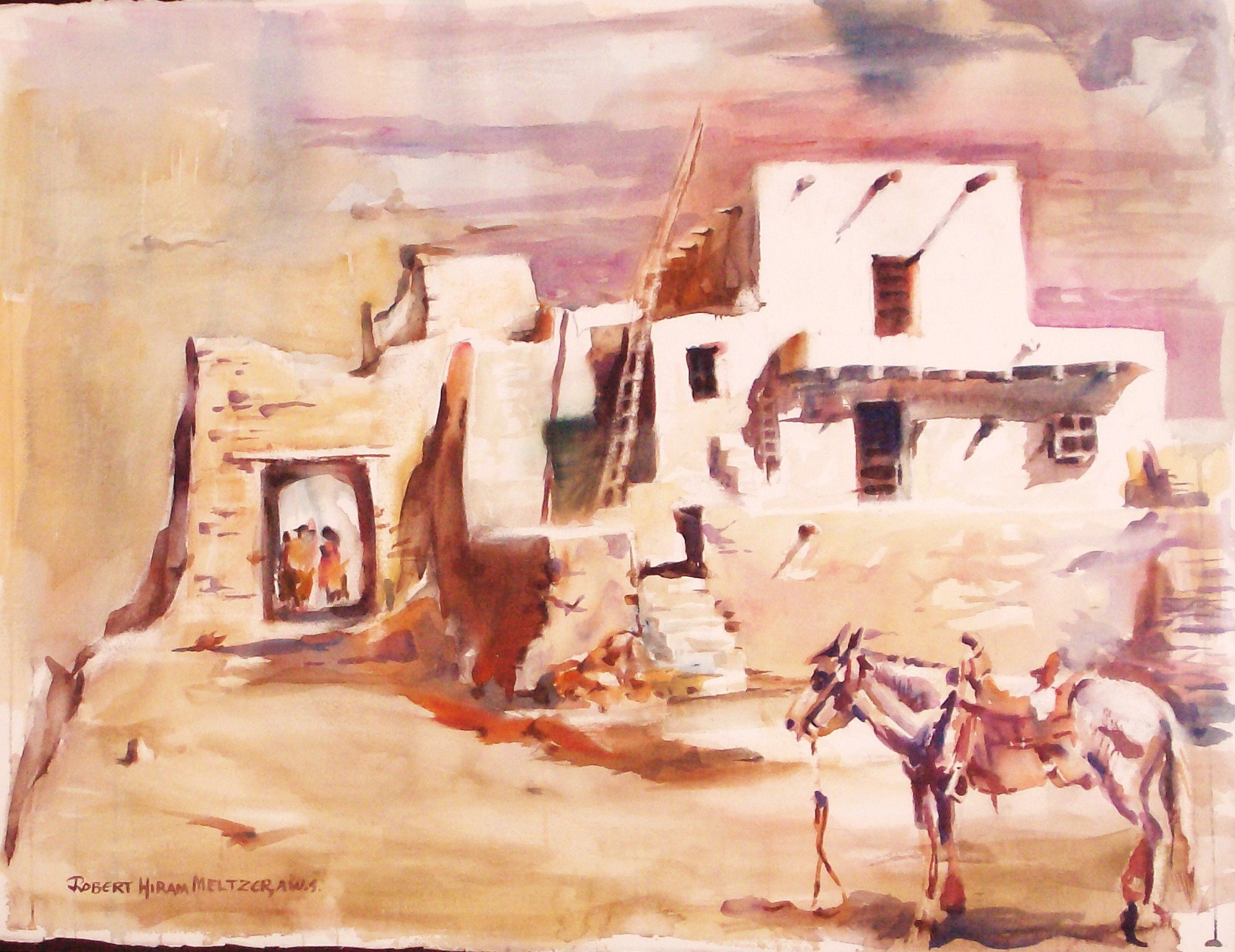 Robert H. Meltzer (American Artist, 1921 - 1987) "Taos Pueblo Scene"